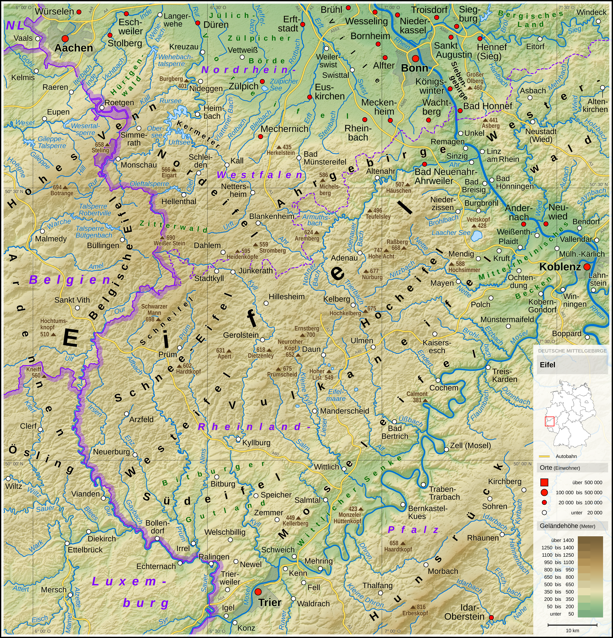 Topographic map of the Eifel